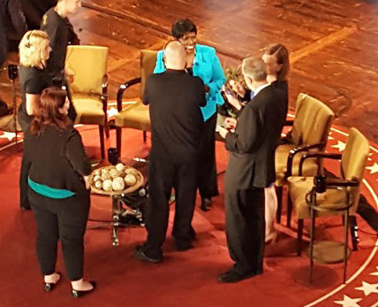 Gwen Ifill chats with the panel after the taping... I went to see the taping of "Washington Week" at the Hanna Theatre in Cleveland, Ohio, on July 15, 2016. "Washington Week" is a weekly PBS public affairs show which airs on most stations on Friday. The host is Gwen Ifill. They taped two episodes of "Washington Week" the same afternoon. One was the regular show, and one was the "Special RNC Cleveland Edition" -- in which they took questions from the audience.